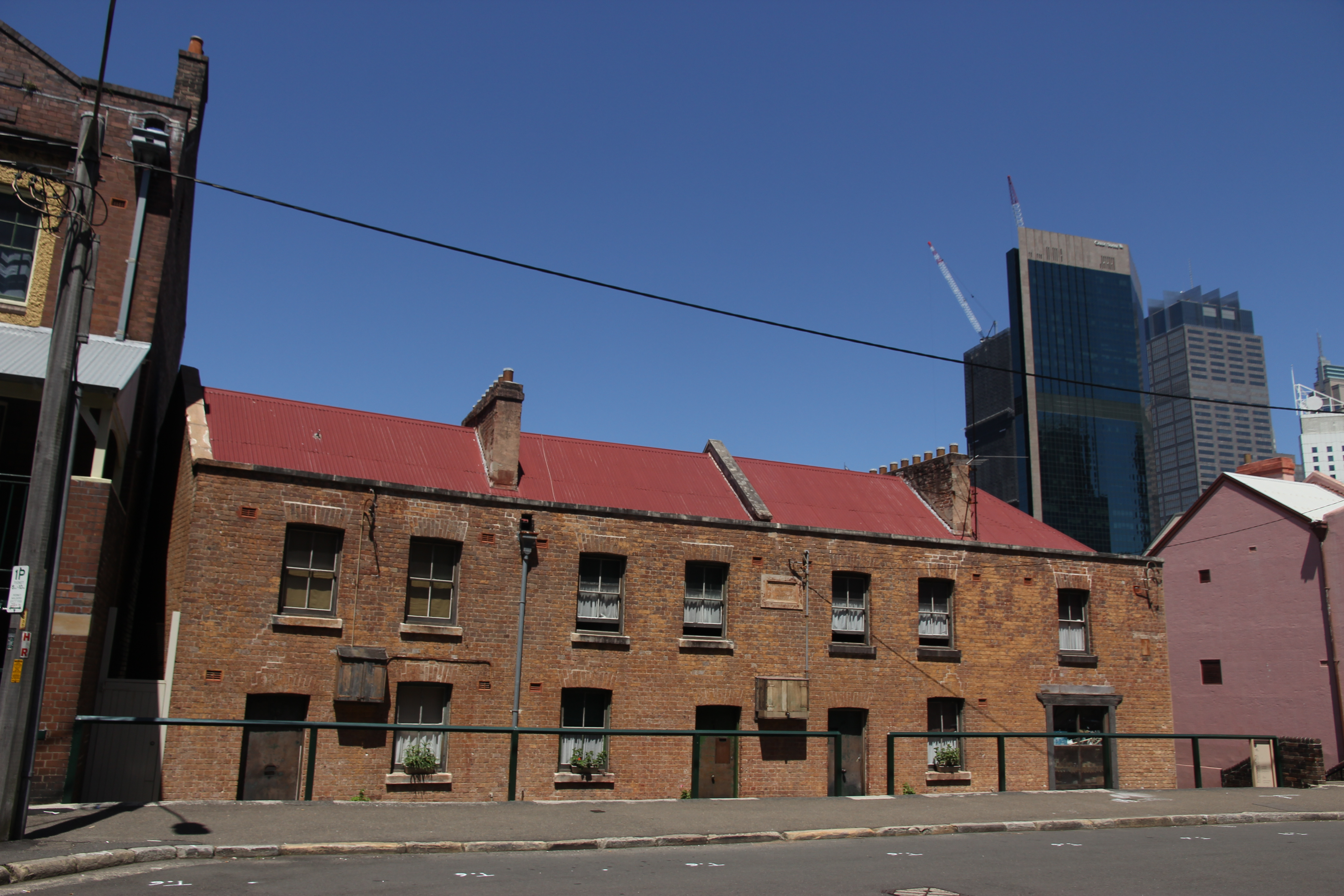 Susannah Place (museum) as viewed from Gloucester Street, The Rocks, City of Sydney, New South Wales, Australia. Listed on the New South Wales State Heritage Register.